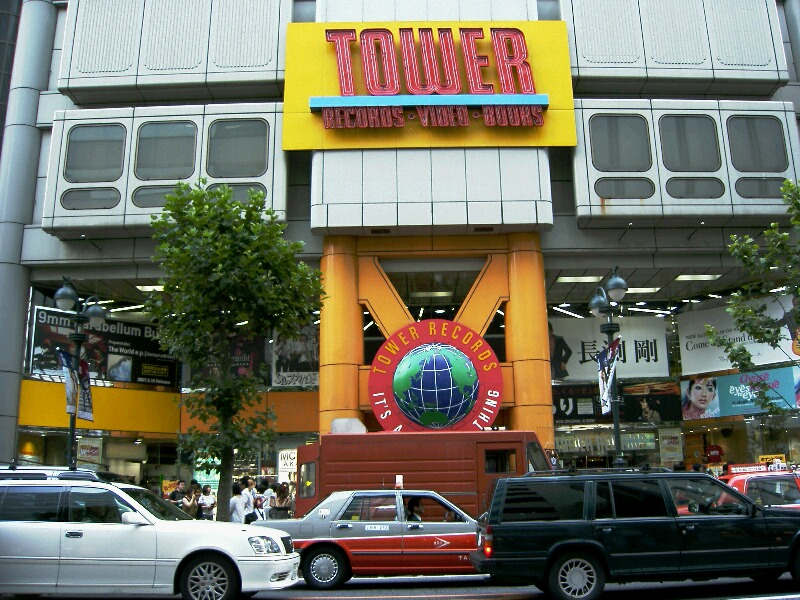 TowerRecords_Shibuya